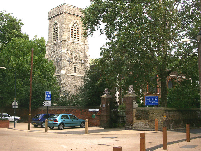 The Church of St. Nicholas. Christopher Marlow is said to be buried in the churchyard of St. Nichols. But legend has it that he was not murdered in 1593 but escaped charges of treason by fleeing to the West Country and changing his name to William Shakespeare. A plaque to him can be found on the east wall Marlovian_theory